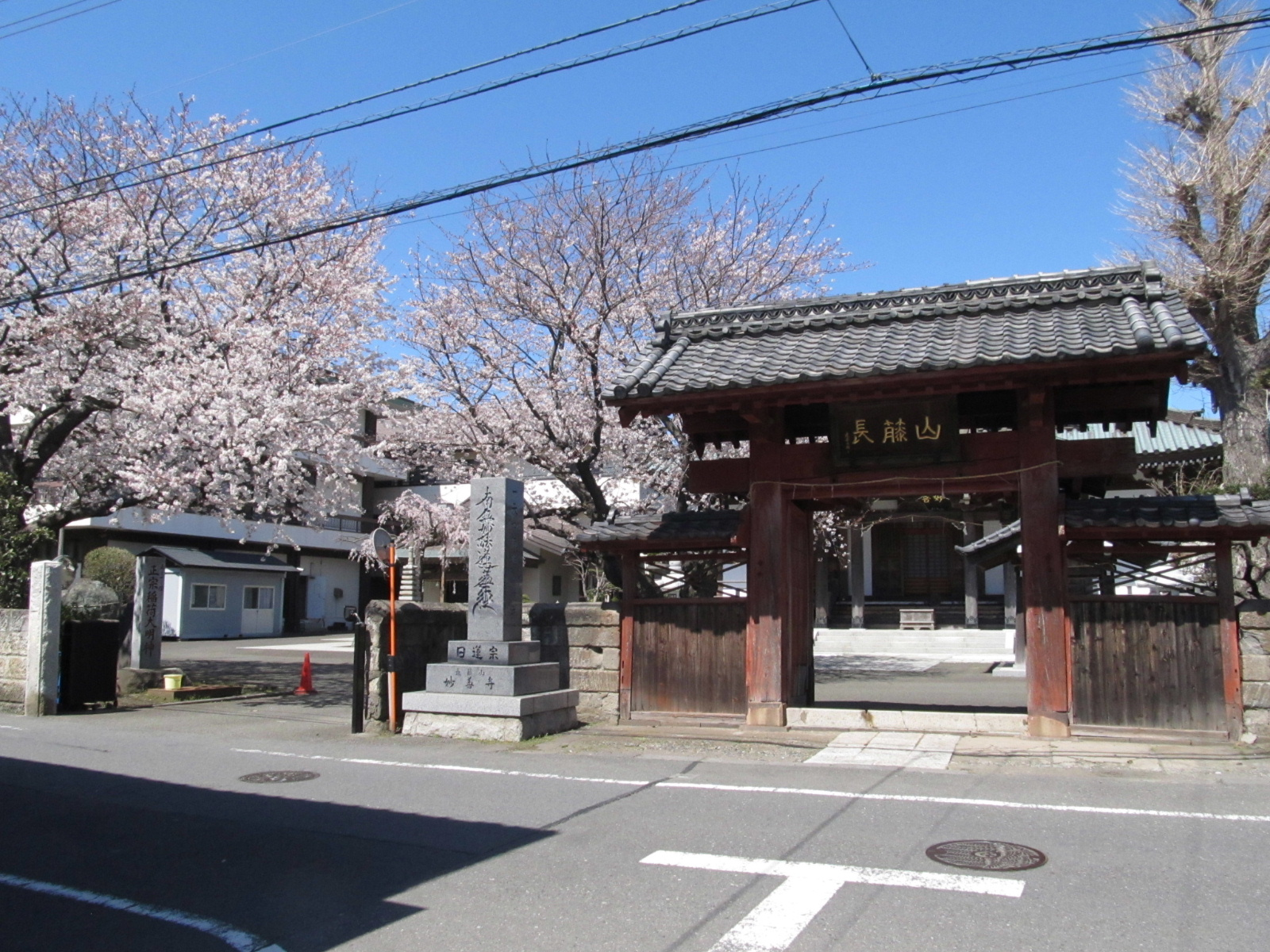 Sanmon at Myōzen-ji in Fujisawa City, Kanagawa Prefecture, Japan